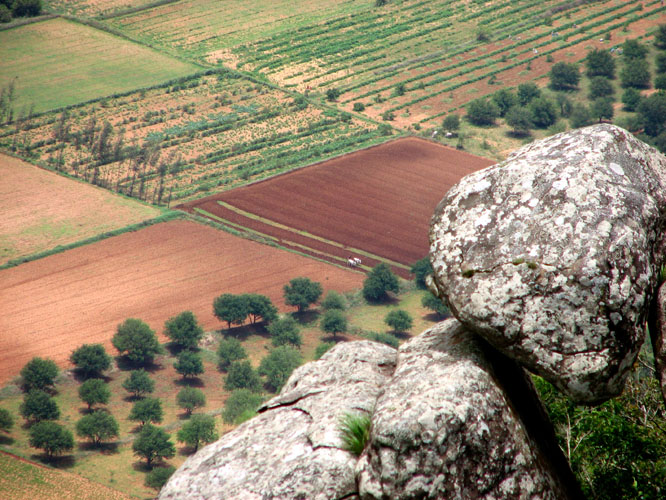 aerial view of agricultural farms in India. The view is of Tamilnadu side from Pampadumpara in Idukki (Kerala)